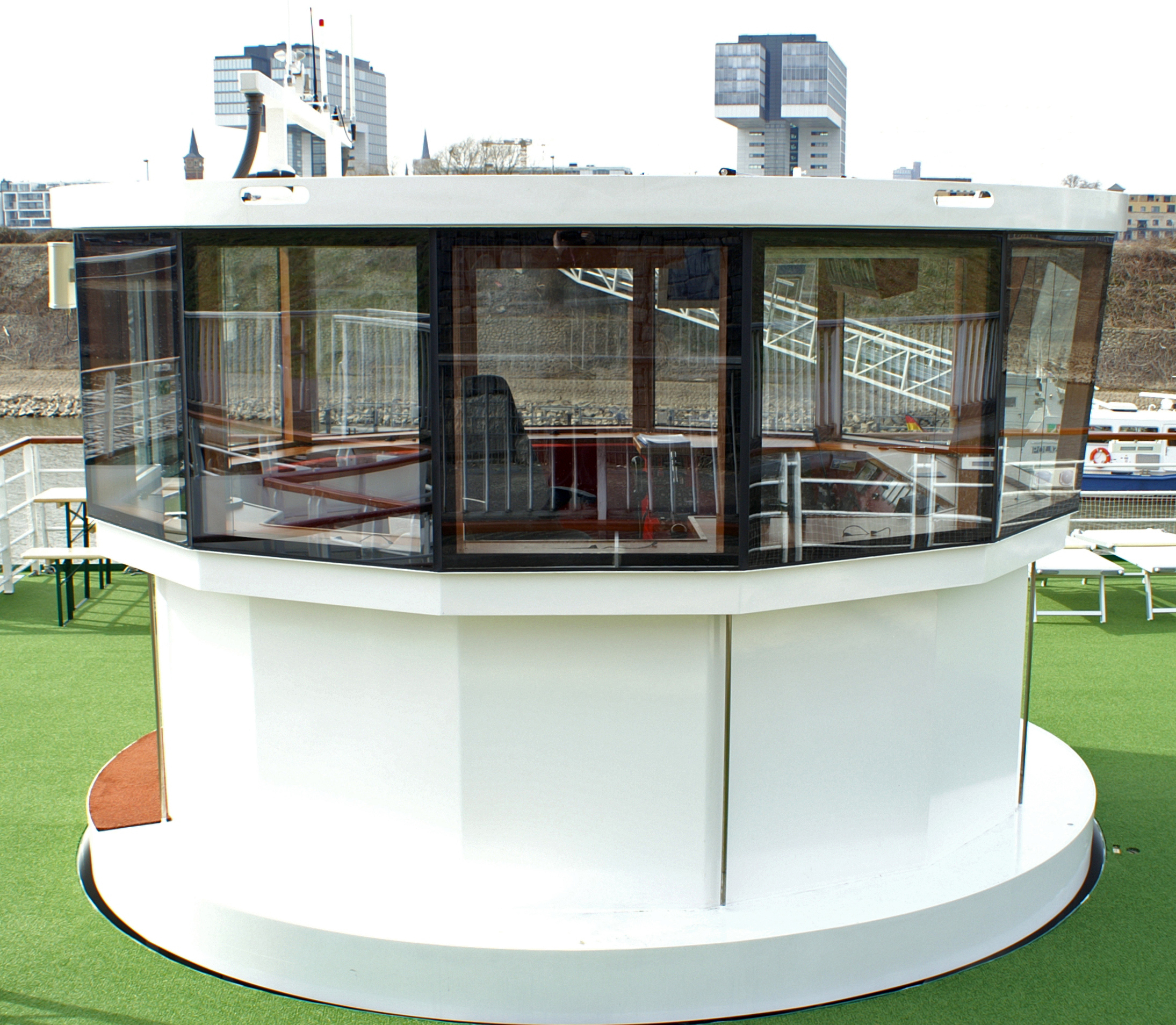 The wheelhouse of the river cruise ship A-Rosa Brava.